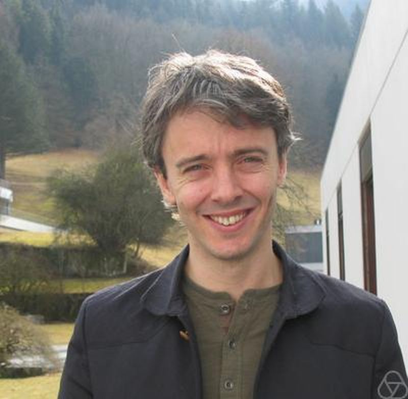 Geordie Williamson, Oberwolfach 2012